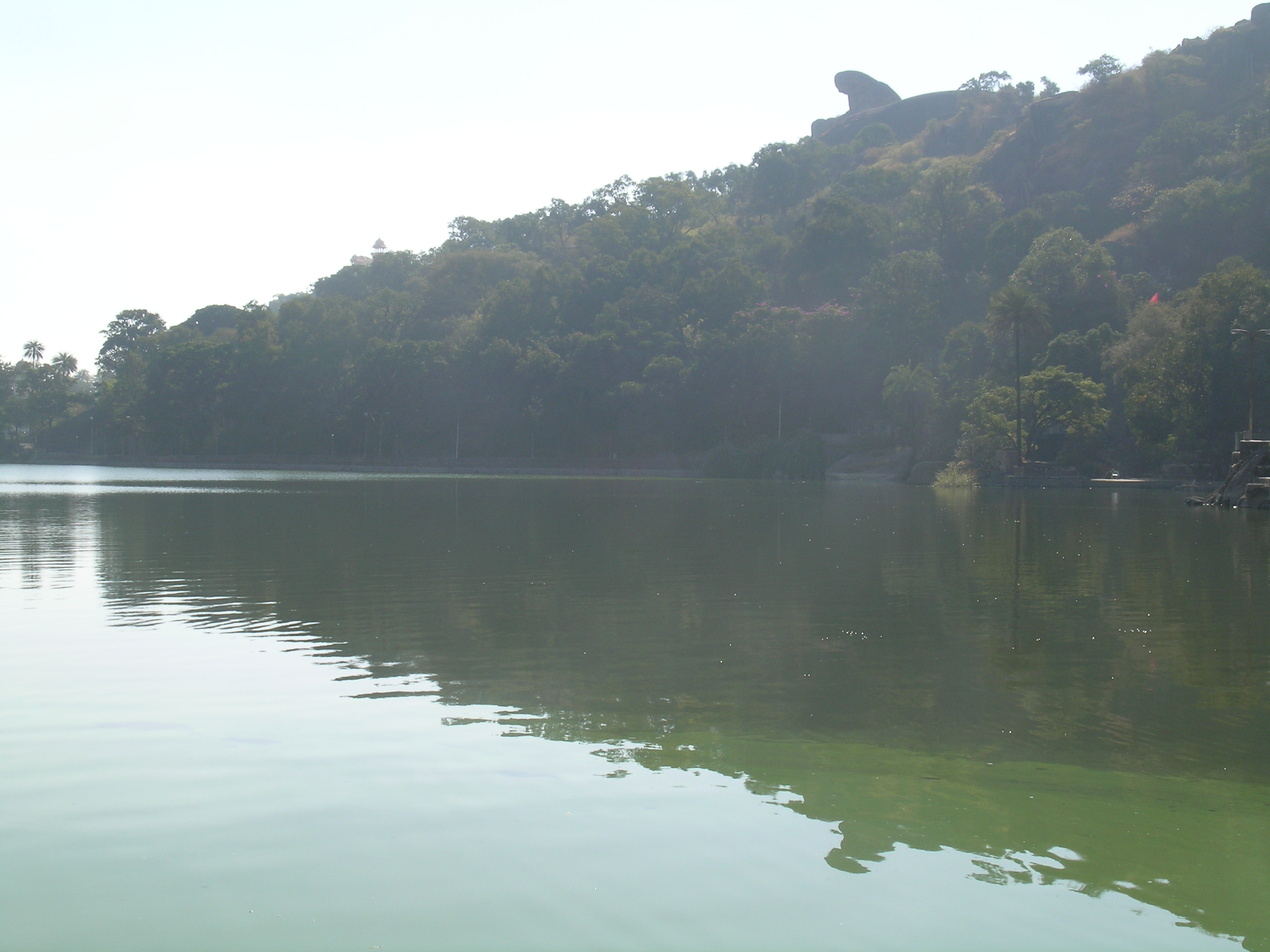 Nakki Lake, Mount Abu, Rajasthan, India. Depicts the toad rock and the Maharaja's palace.